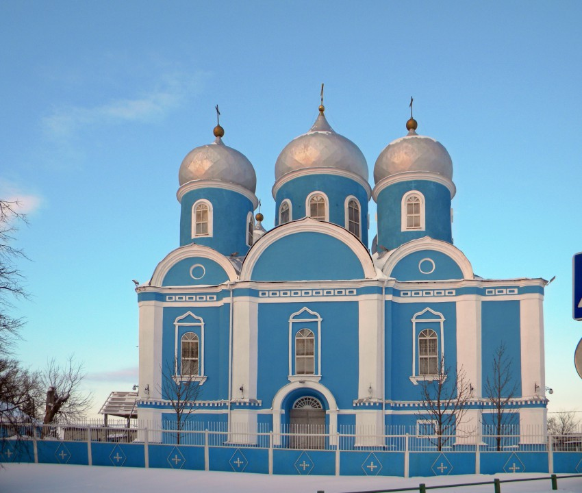 The Dormition Church, Alexeyevka, Korochansky District, Kursk Oblast, Russia